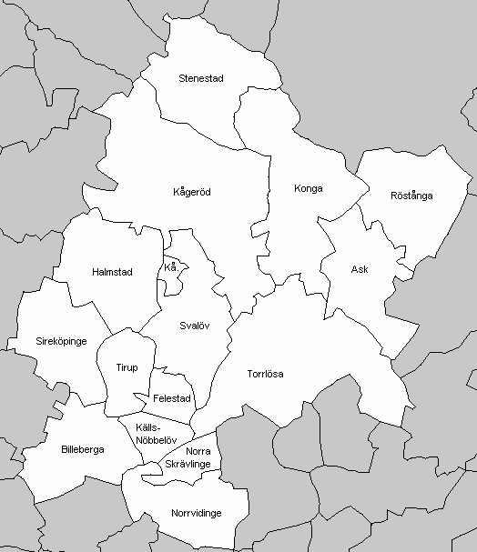 Socken in Svalöv